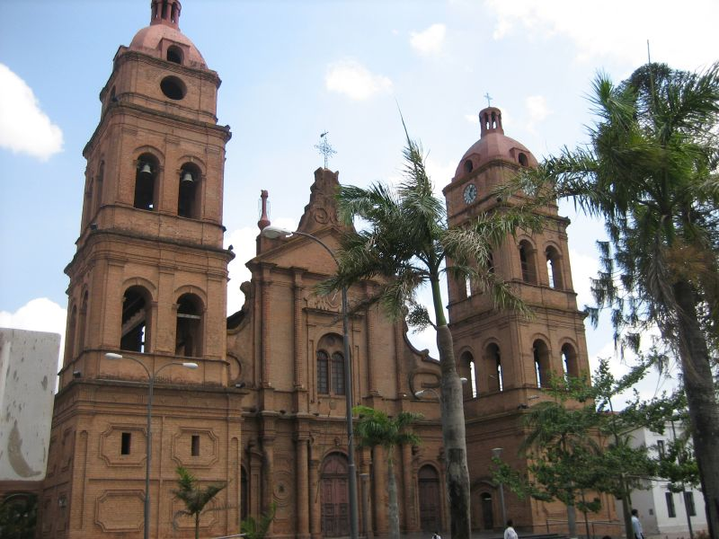 The main cathedral in the main plaza in Santa Cruz